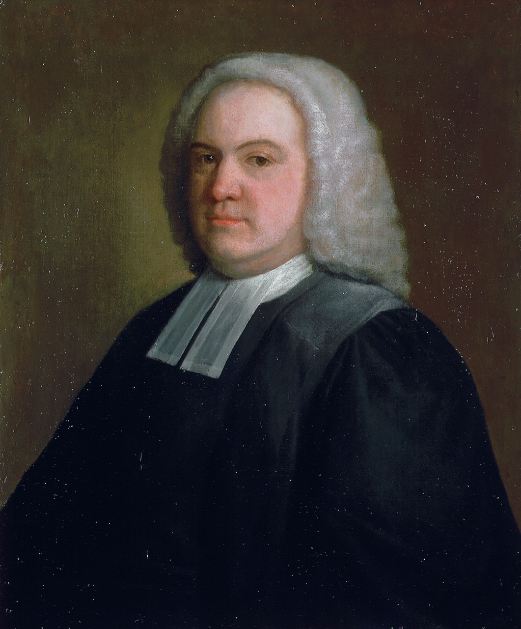 "The Reverend Nathaniel Bliss," oil on canvas, by an unknown artist (British School). 762 mm x 635 mm. Courtesy of the National Maritime Museum, Greenwich, London.